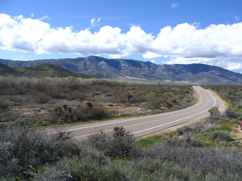 San Felipe Rd. (County Highway S2) in San Diego, California, just north of State Highway 78. Public domain image.